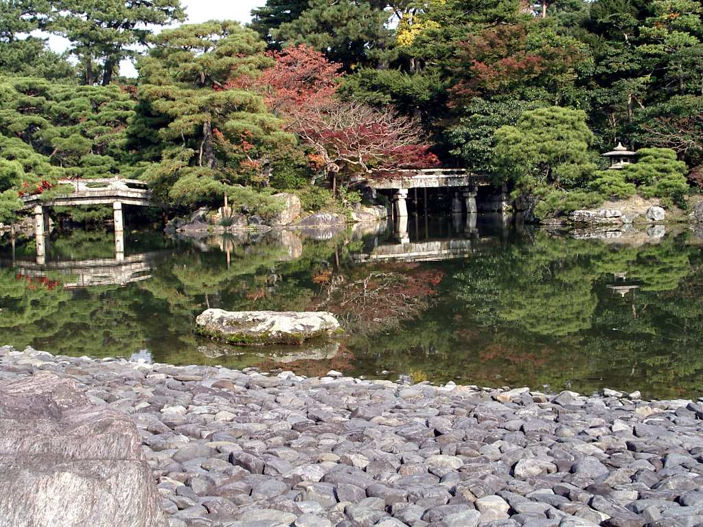 Kyoto imperial palace garden in Kyoto, Japan 京都御所庭園